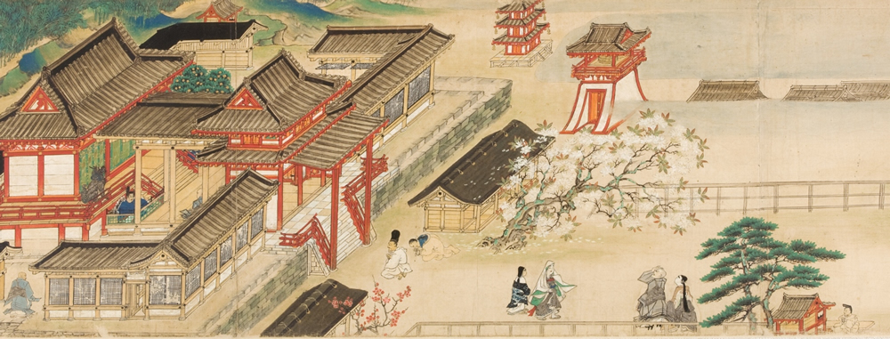 Detail from scroll 6, Matsuzaki Tenjin Engi, Hofu Tenmangu, Hofu, Yamaguchi, Japan